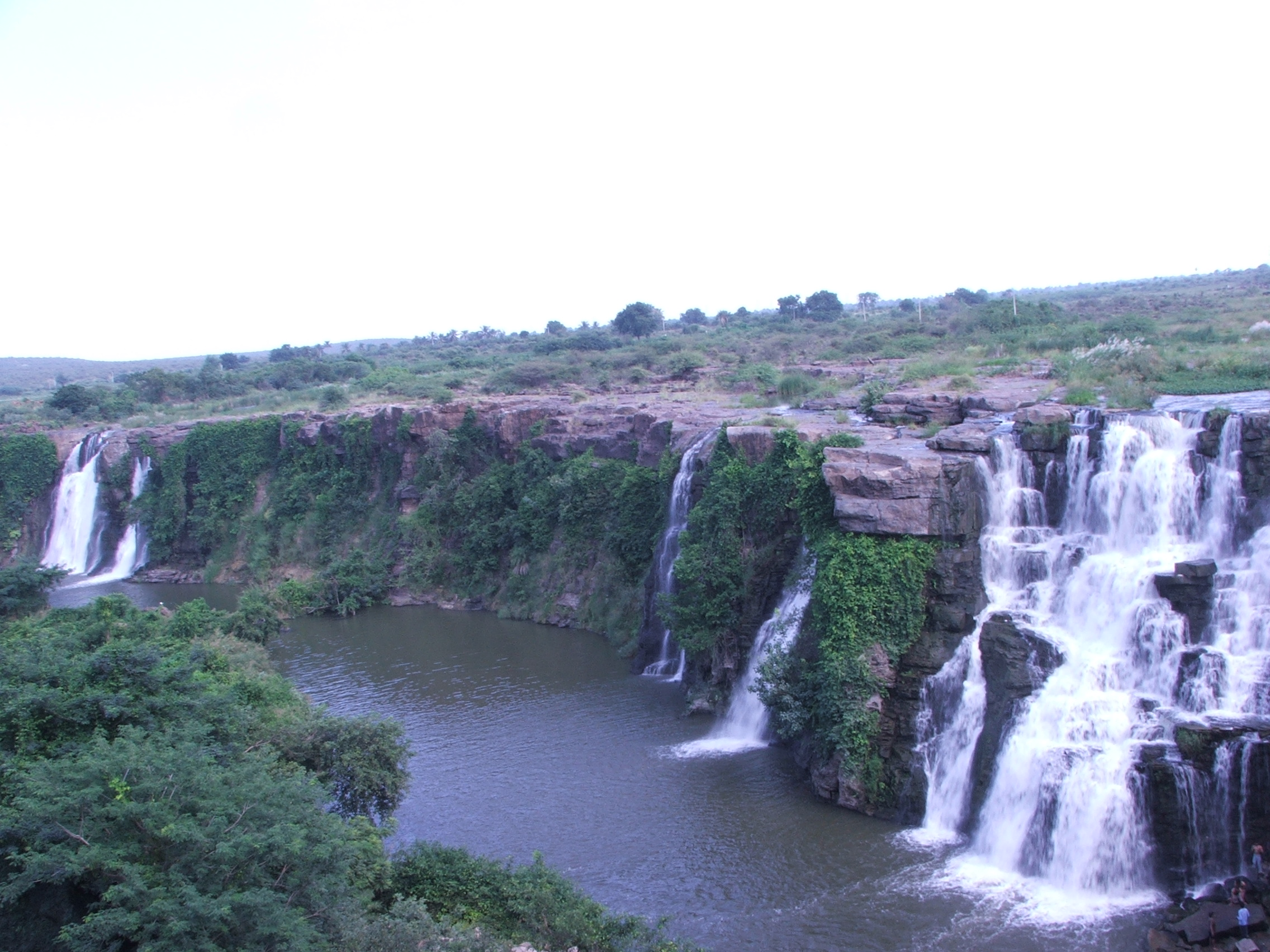 Ethipothala Falls is a 21 m high river cascade, situated on the Chandravanka river, a tributary of River Krishna. It is situated about 11 kilometres from Nagarjuna Sagar Dam.